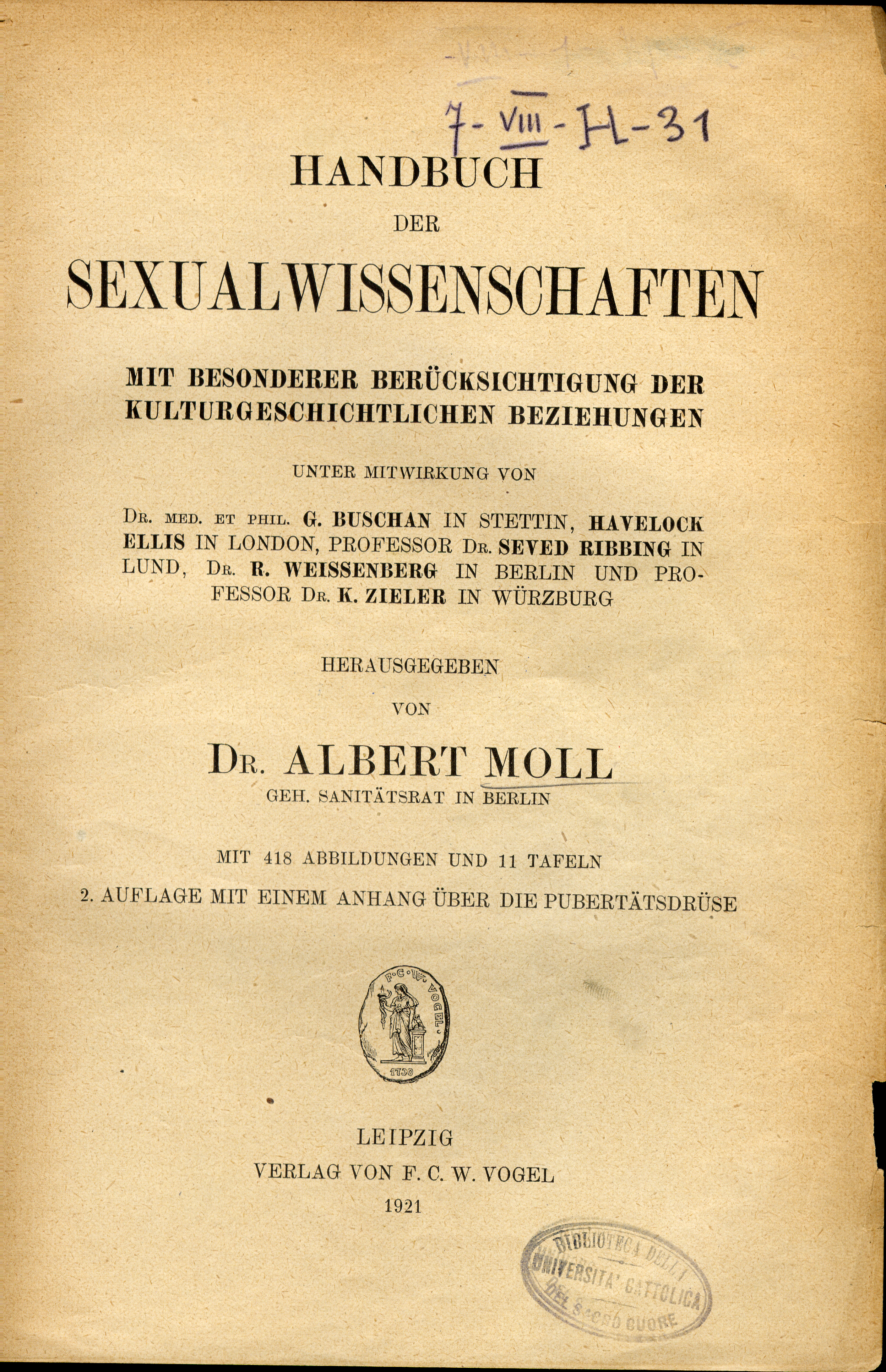 Front cover of the book: Albert Moll, Handbuch der Sexualwissenschaften, Verlag Von F.C. Vogel, Leipzig 1921, p. 718.